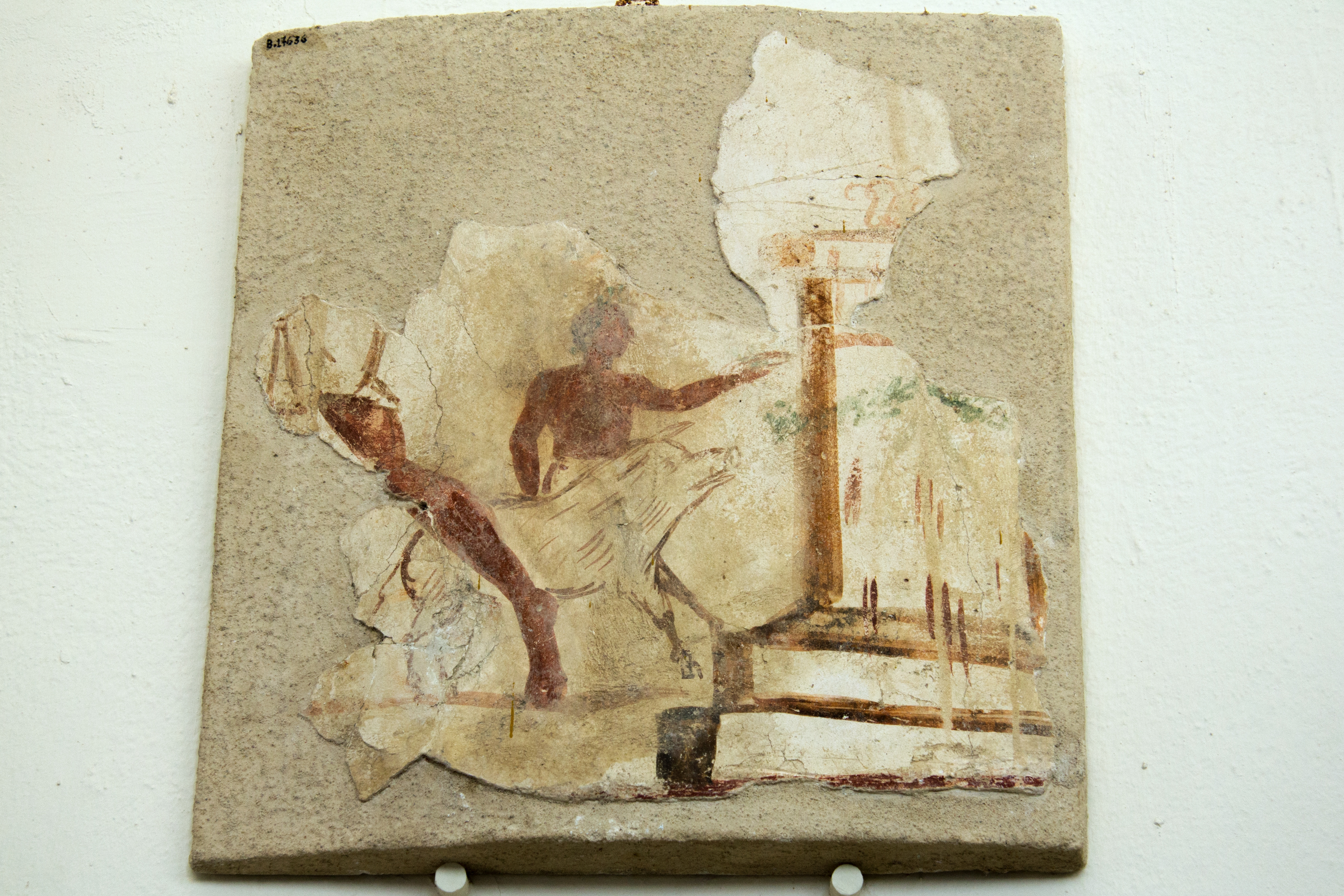 Mural painting from Delos: Sacrifice of a pig. Circa 100 BC. Archaeological Museum of Delos, B 17636.